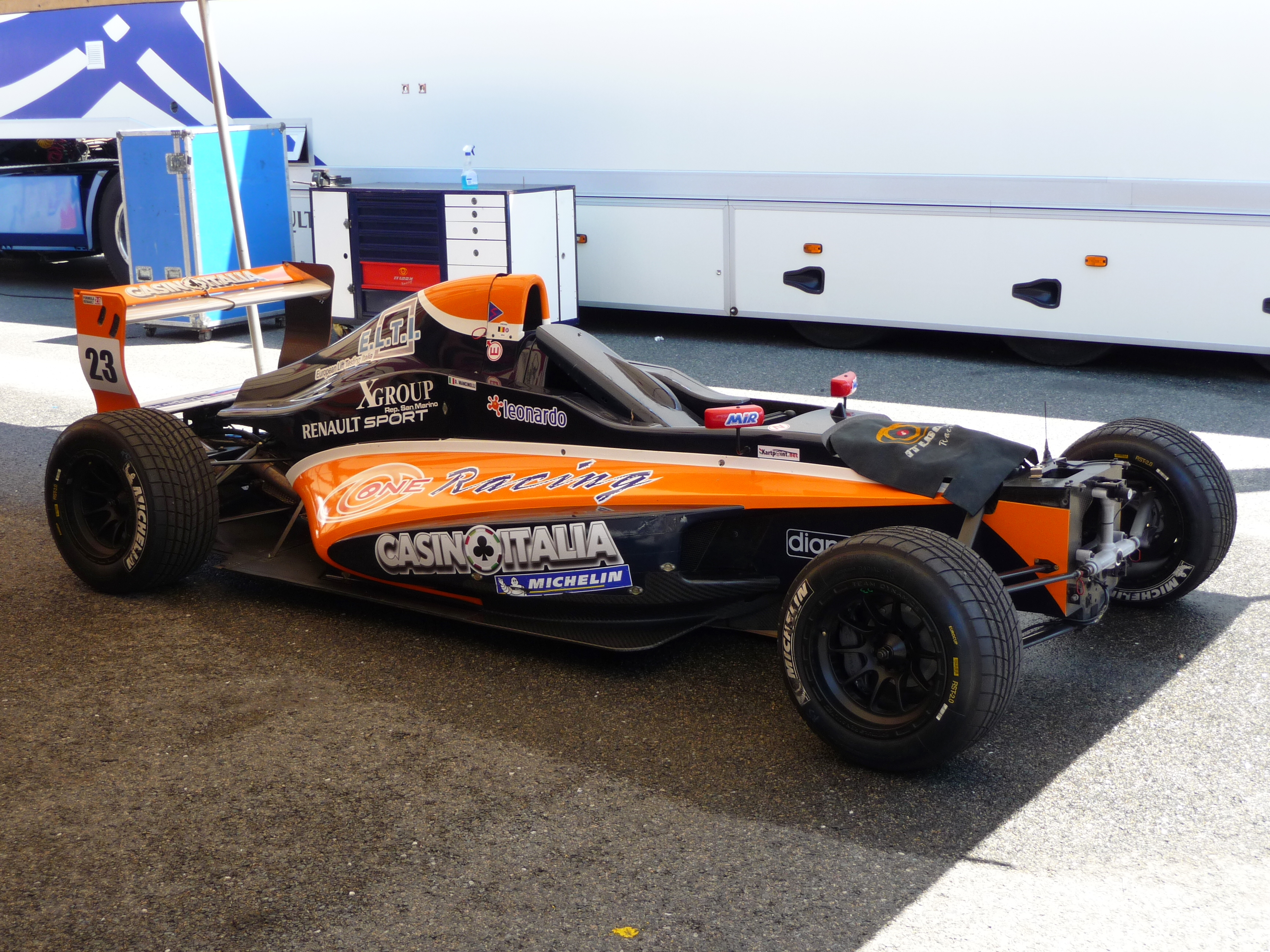 Car of Daniel Mancinelli in paddock, Paddock Tour, 2010 Brno World Series by Renault -10-5-3-2◄►+2+3+5+10